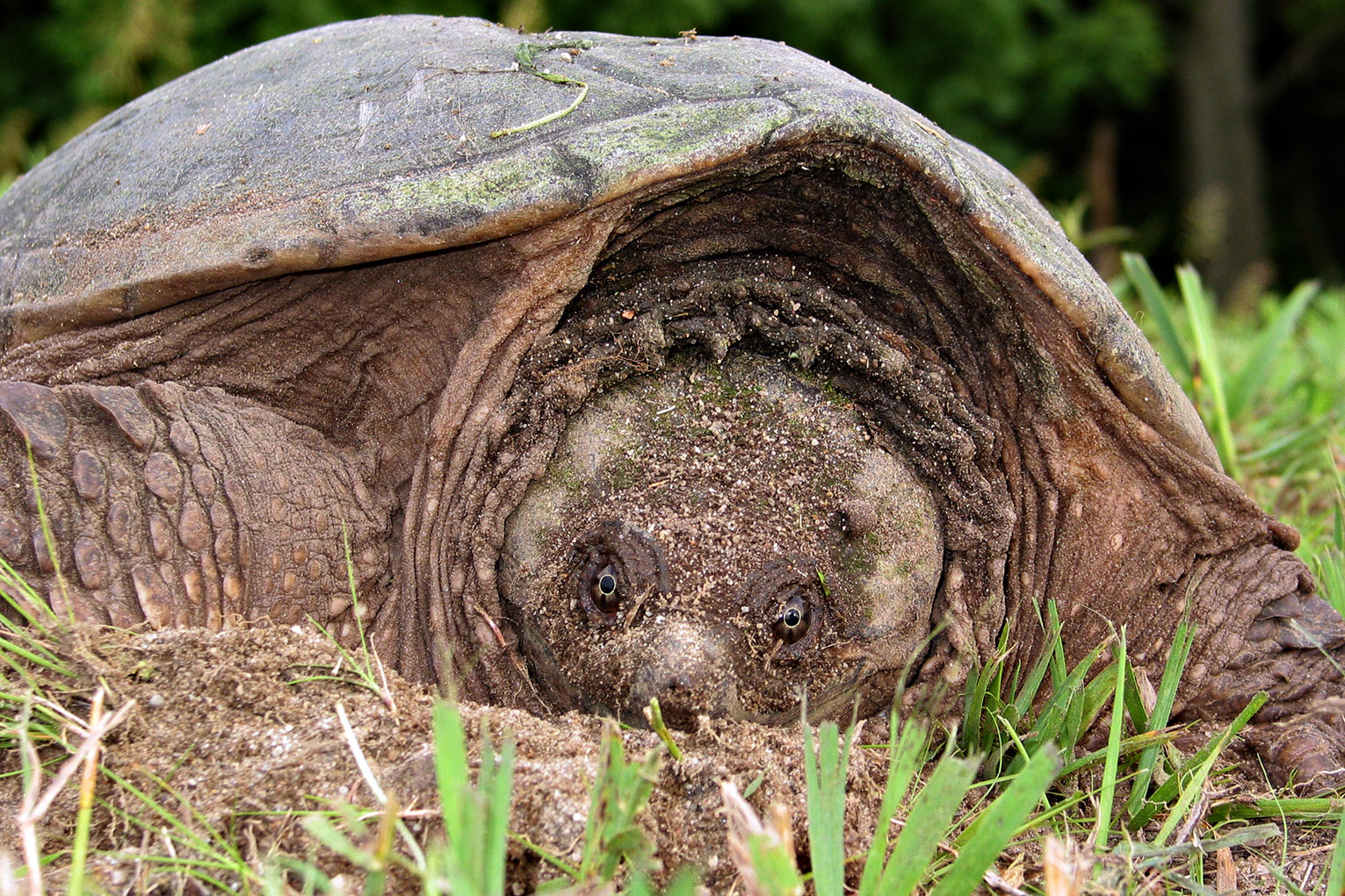 Head-on view of a snapping turtle (Chelydra serpentina) hidden near the St. Lawrence River in northern New York state.